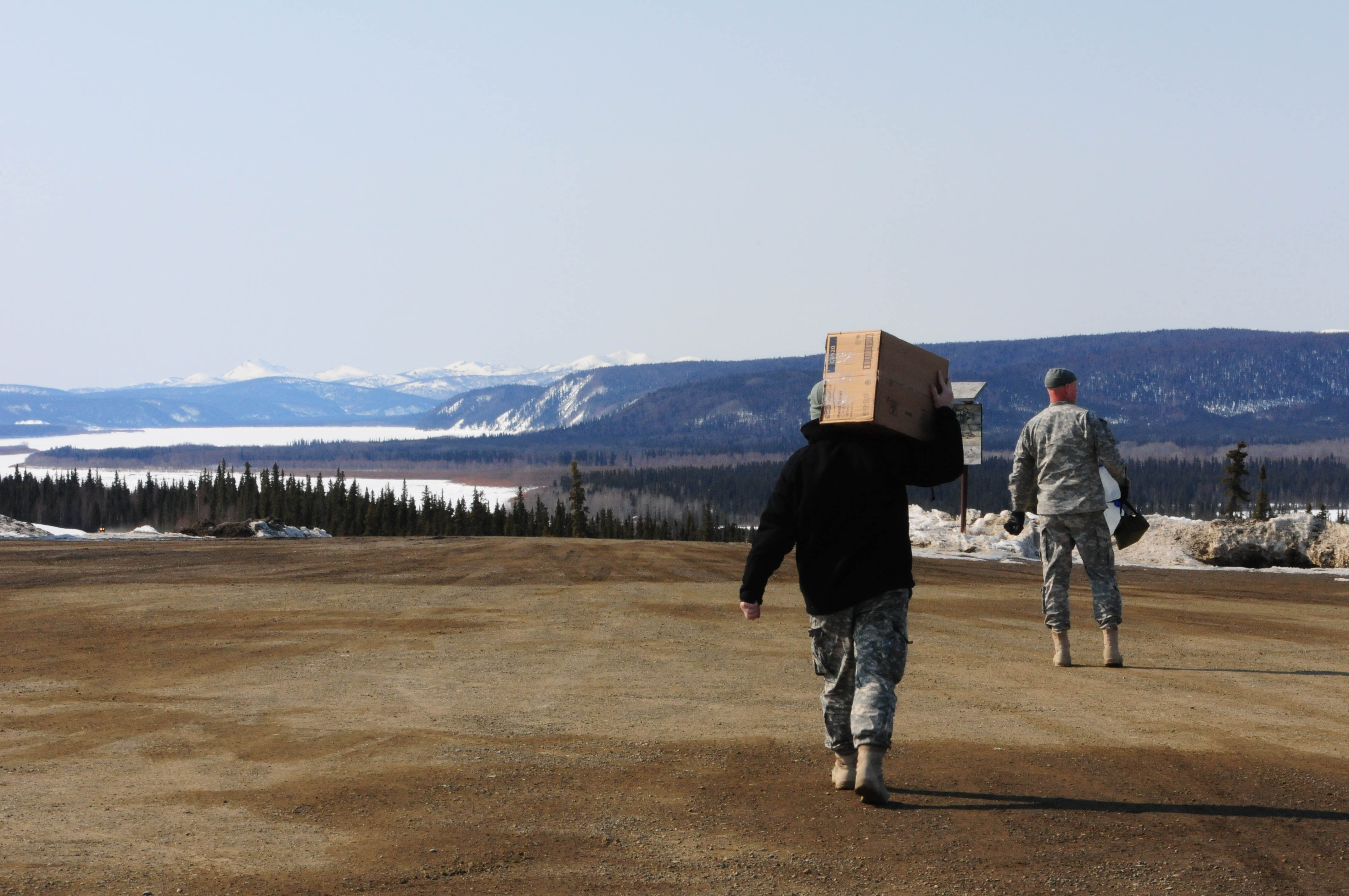 Soldiers of the Arctic Care 2011 mission resupply a medical team in the hard-to-reach village of Nulato, Alaska. These soldiers will fly in food and medical supplies to remote village like this one during the medical operation. (Army Photo by Sgt. Craig Anderson, 807th MDSC Public Affairs)